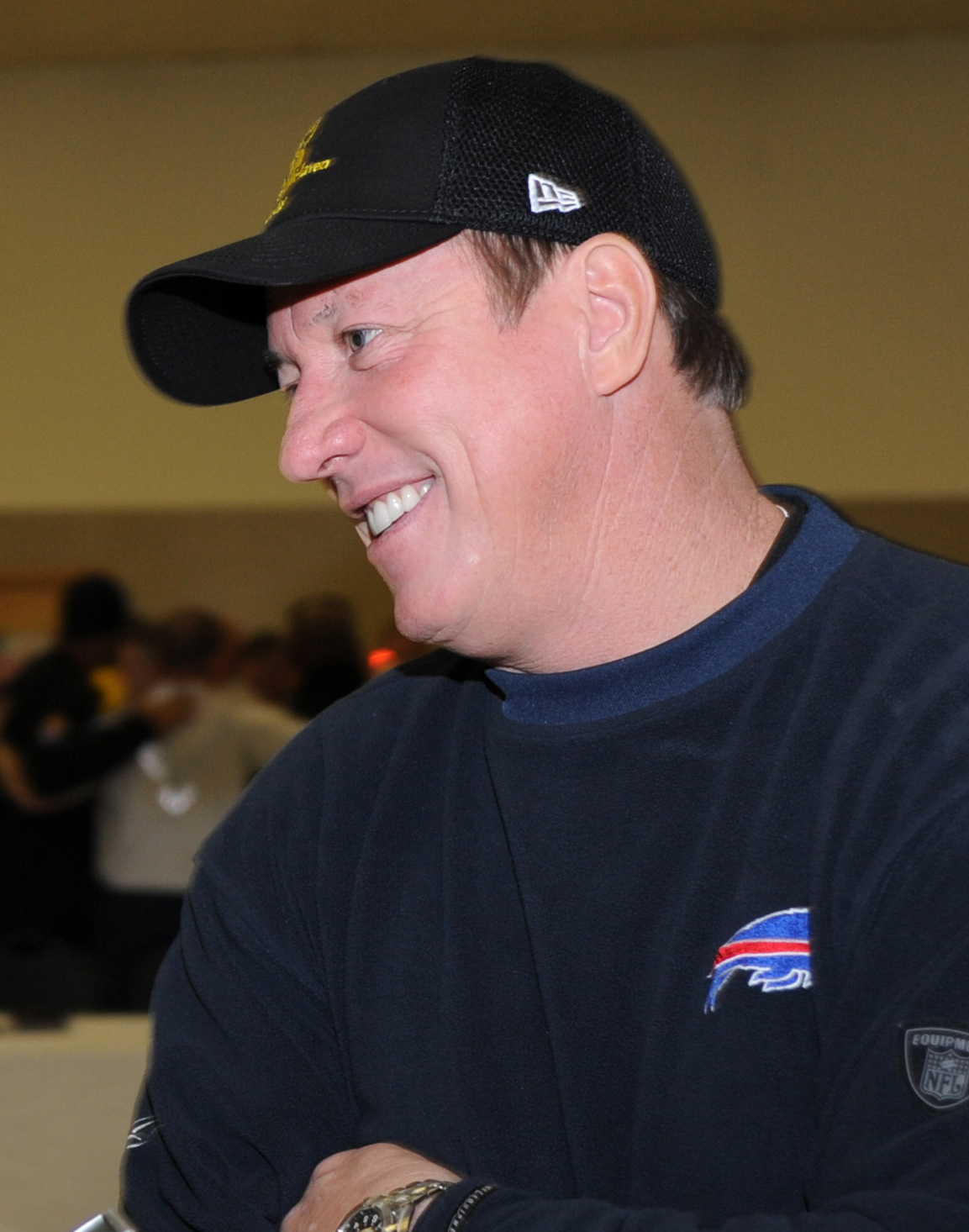 Senior Airman Tong Duong, 332nd Air Expeditionary Wing public affairs journalist, interviews football Hall-of-famer Jim Kelly here Dec. 20. Kelly, along with eight former college greats and two legendary coaches, is here as a part of the USO/Tostitos “Connect to Home Bowl” visit. The USO-sponsored tour boosted service members’ morale with a pep rally, tailgate party, and flag football game featuring the former stars and JBB players. Duong hails from Sacramento, Calif., and is deployed from Goodfellow Air Force Base, Texas.